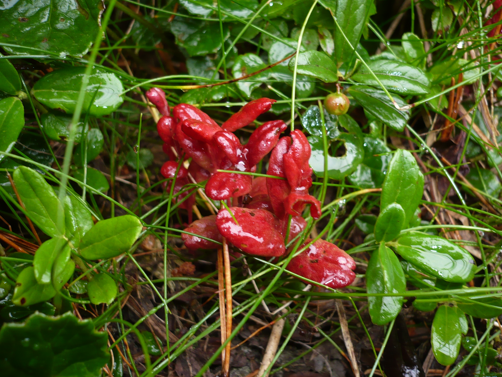 Exobasidium splendidum Nannf. Image location: Hirscheggsattel, Präbichl, Bezirk Leoben-Land, Styria, Austria [admin – Sat Aug 14 02:01:09 +0000 2010]: Changed location name from ‘Hirscheggsattel,Präbichl,Bezirk Leoben-Land,Styria,Austria’ to ‘Hirscheggsattel, Präbichl, Bezirk Leoben-Land, Styria, Austria’ Recognized by sight For more information about this, see the observation page at Mushroom Observer.